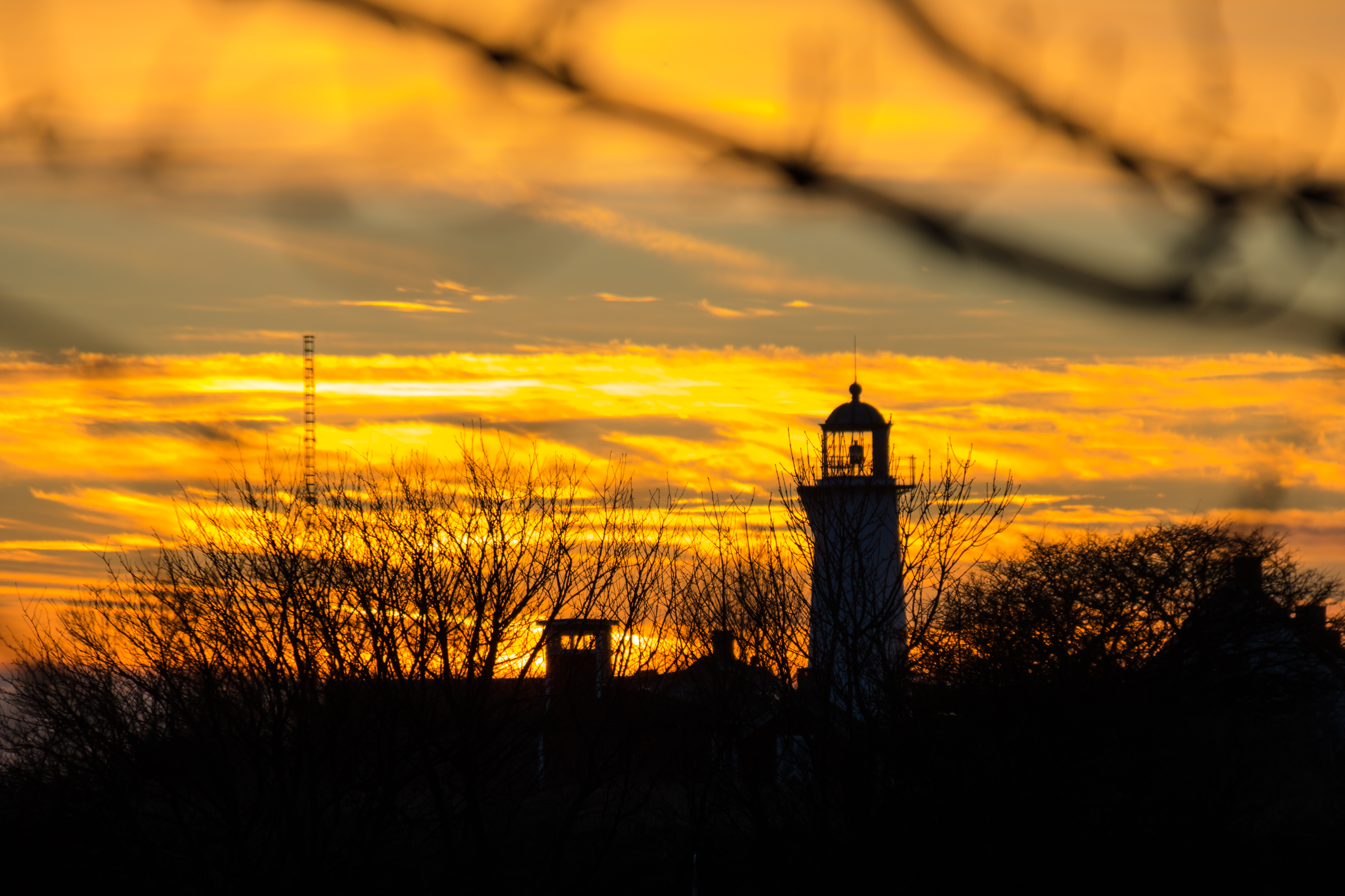 Lighthouse at sunset